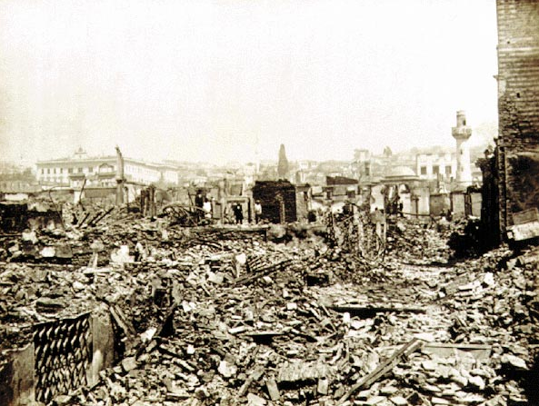 The destruction caused by the Great Fire of Thessaloniki in 1917.